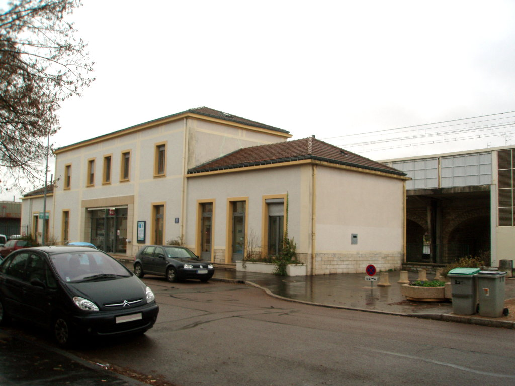 View of the Porte-Neuve station in Dijon, Côte d'Or, France.